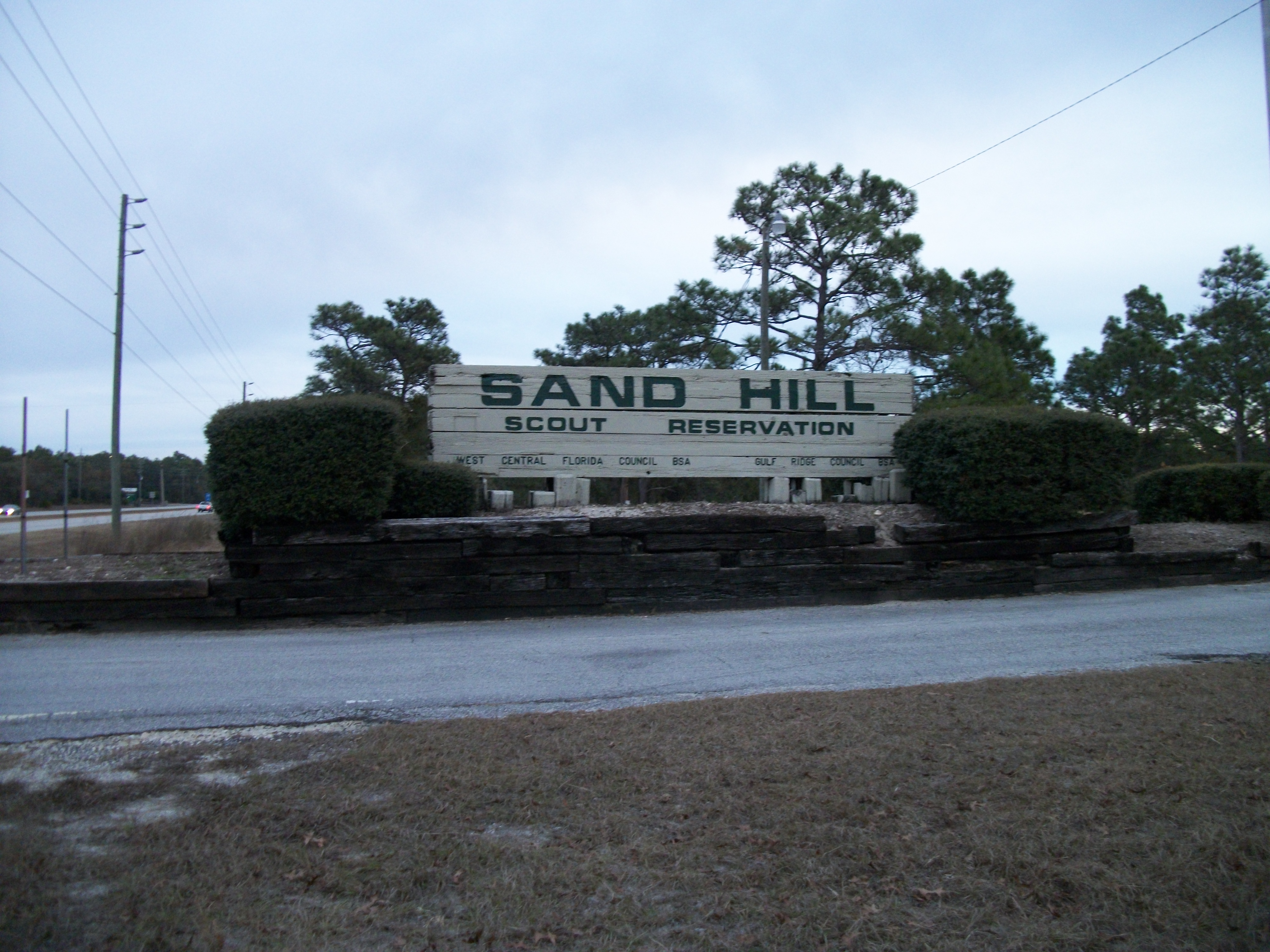 Dusk shot of a sign along Hunt Lane, the entrance for the Sand Hill Scout Reservation, a Boy Scout Camp in Spring Hill, Florida, on the border with unincorporated Brooksville. This used to be brown and white like most signs for parks.